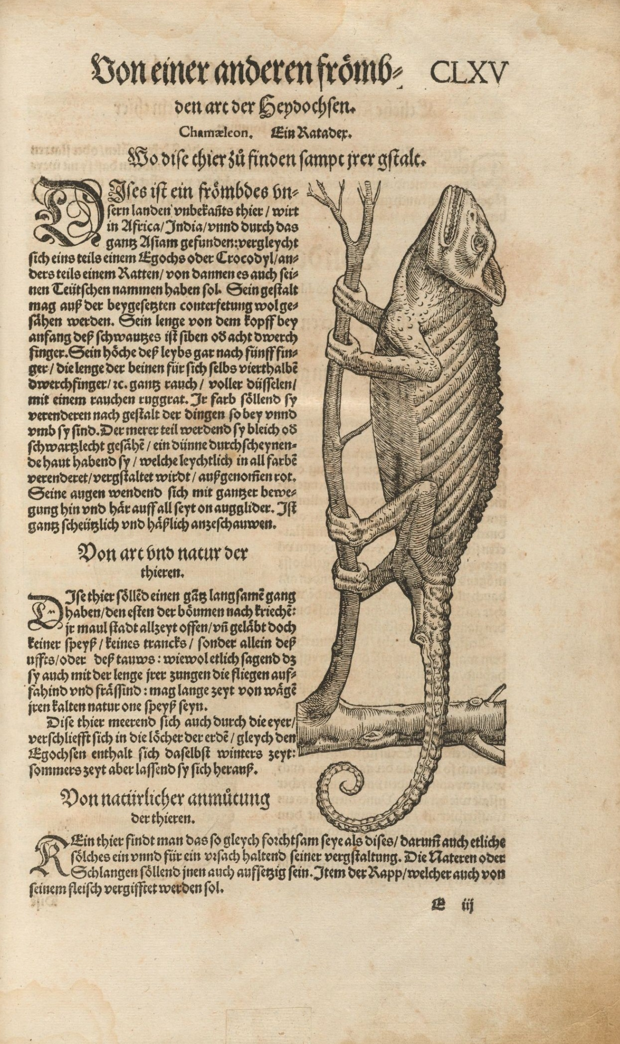 Page CLXV from a German translation of Thierbuch das is ein kurtze b[e]schreybung aller vierfüssigen thiern so/ auff der erdē und in wasseren wonend/ sampt irer waren conterfactur, Zurich: 1563. The page apparently depicts a chameleon (artist unidentified). [ F 5405.58.6, Houghton Library, Harvard University